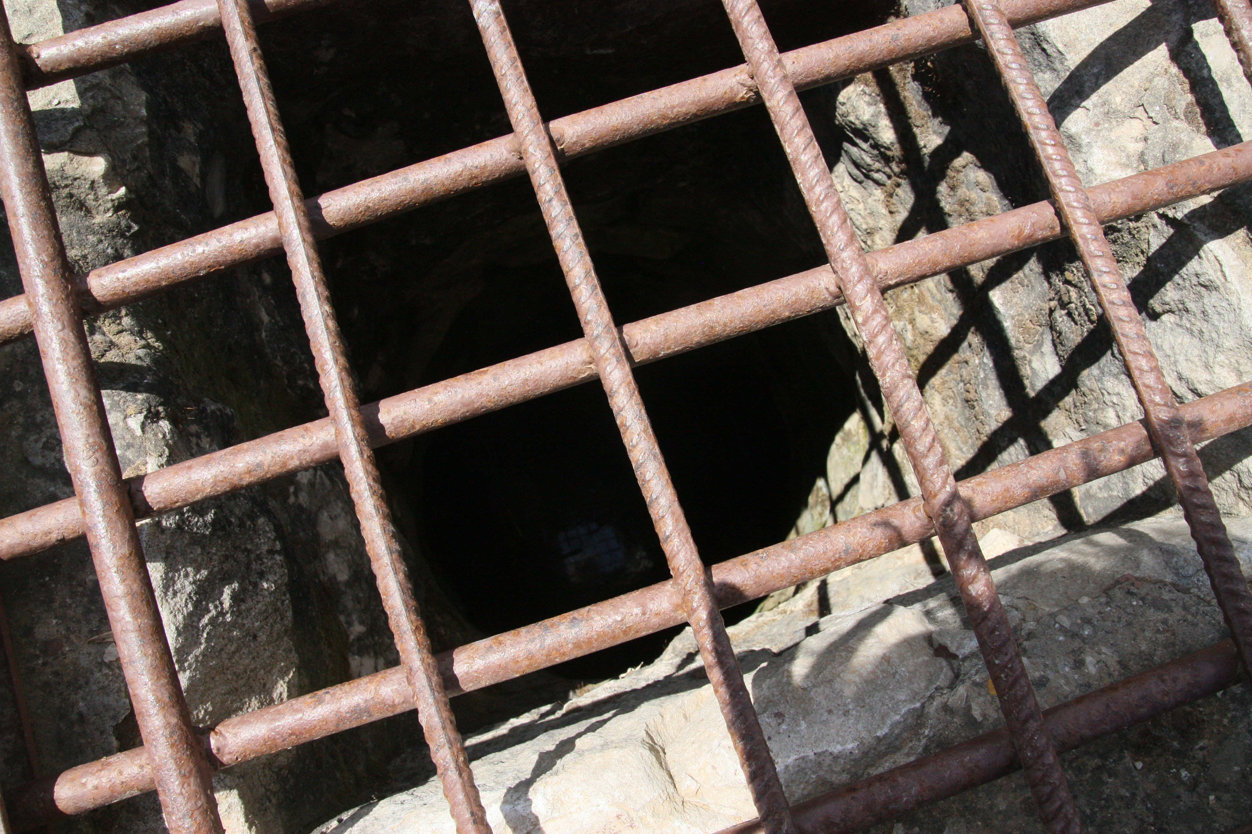 Mount Carmel